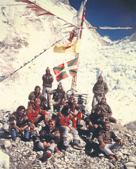 Members of Basque Espedition Everest , 1980